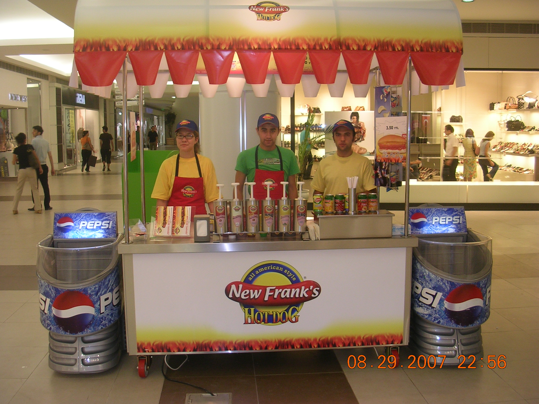 A hot dog stand